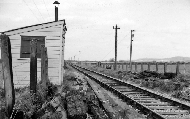 Bledlow Bridge Halt. View NE, towards Princes Risborough; ex-GWR Princes Risborough - Watlington branch, which closed to passengers 7/7/57, to goods 2/1/61.